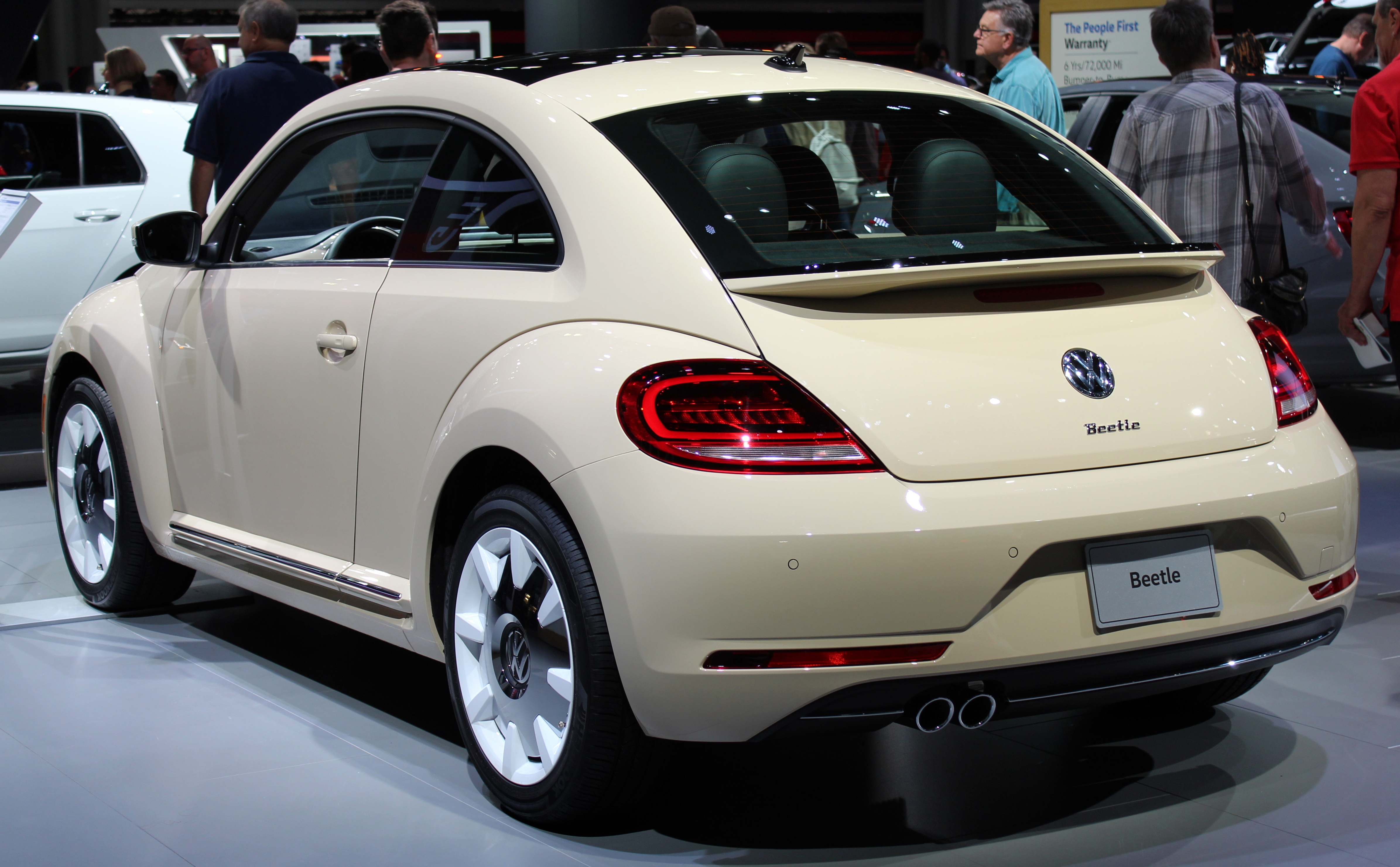 A 2019 Volkswagen Beetle A5 photographed during the 2019 New York International Auto Show, in Hudson Yards, Manhattan, NYC